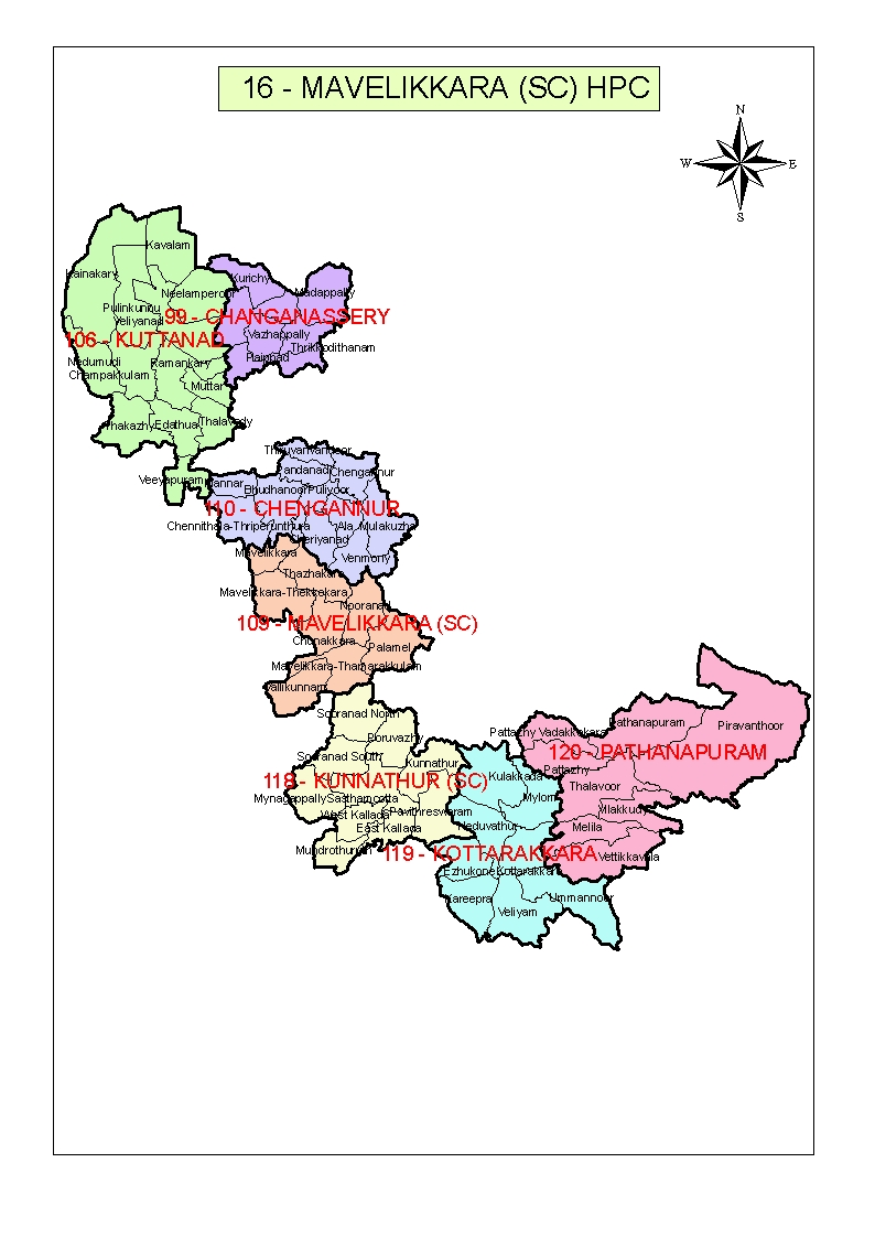 This is the map of Mavelikkara Lok Sabha Constituency